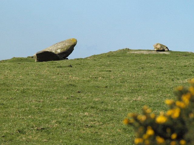 Hendraburnick Quoit An archaeological controversy in a Cornish field - . Is this a natural feature, a long barrow, or a post-medieval spoil heap?